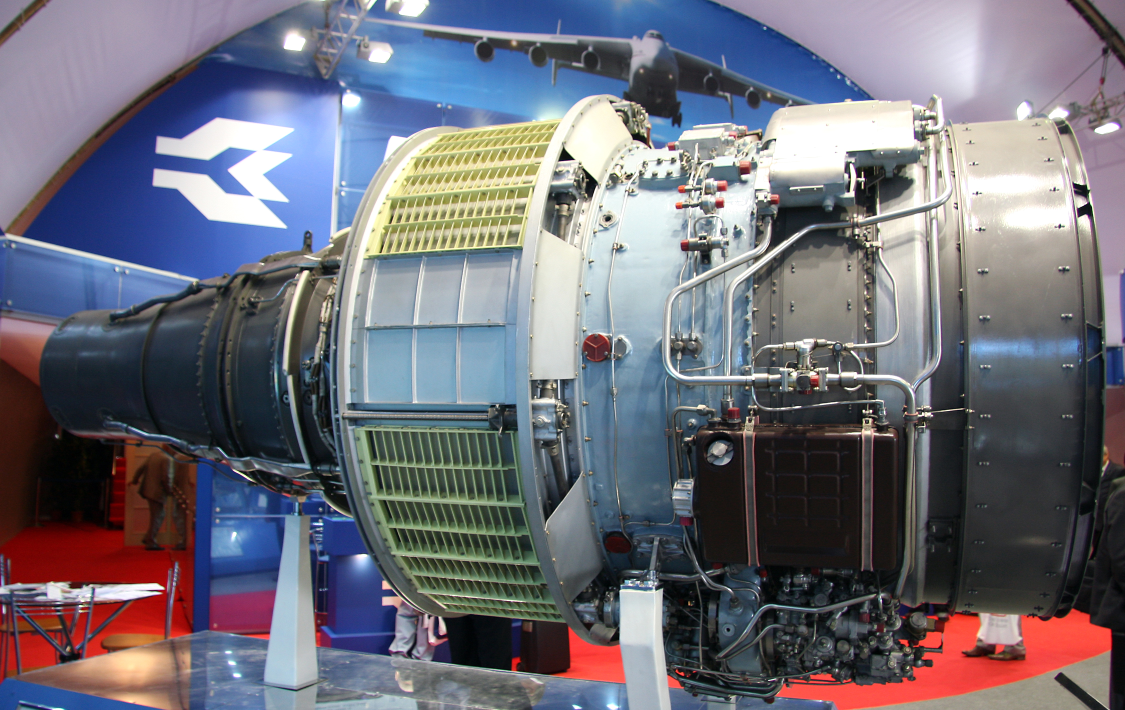 D-436-148 turbofan engine for An-148 at MAKS-2009